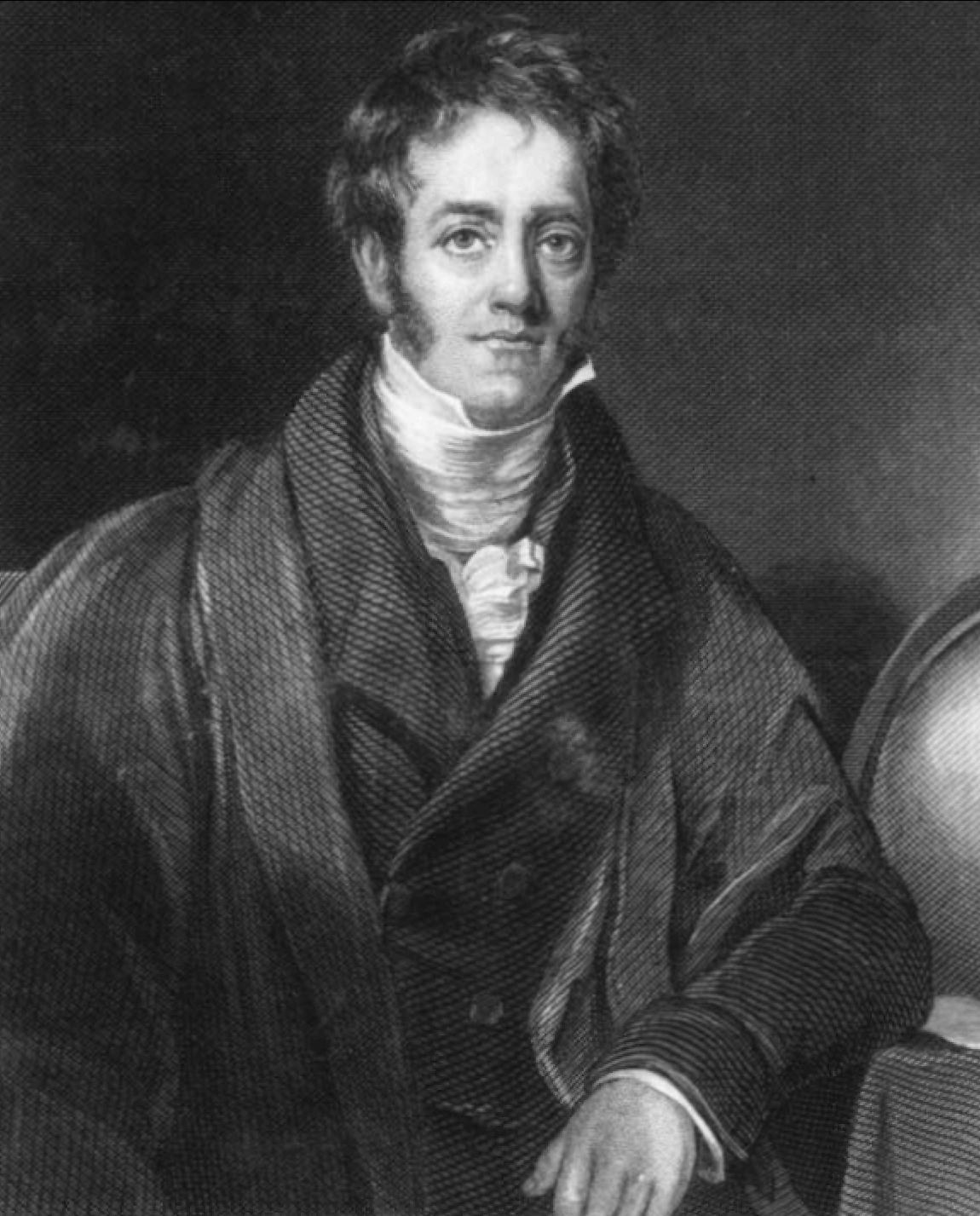 The great astronomer Sir John Herschel, around the time of his South African expedition. (Courtesy of the Library of Congress.)